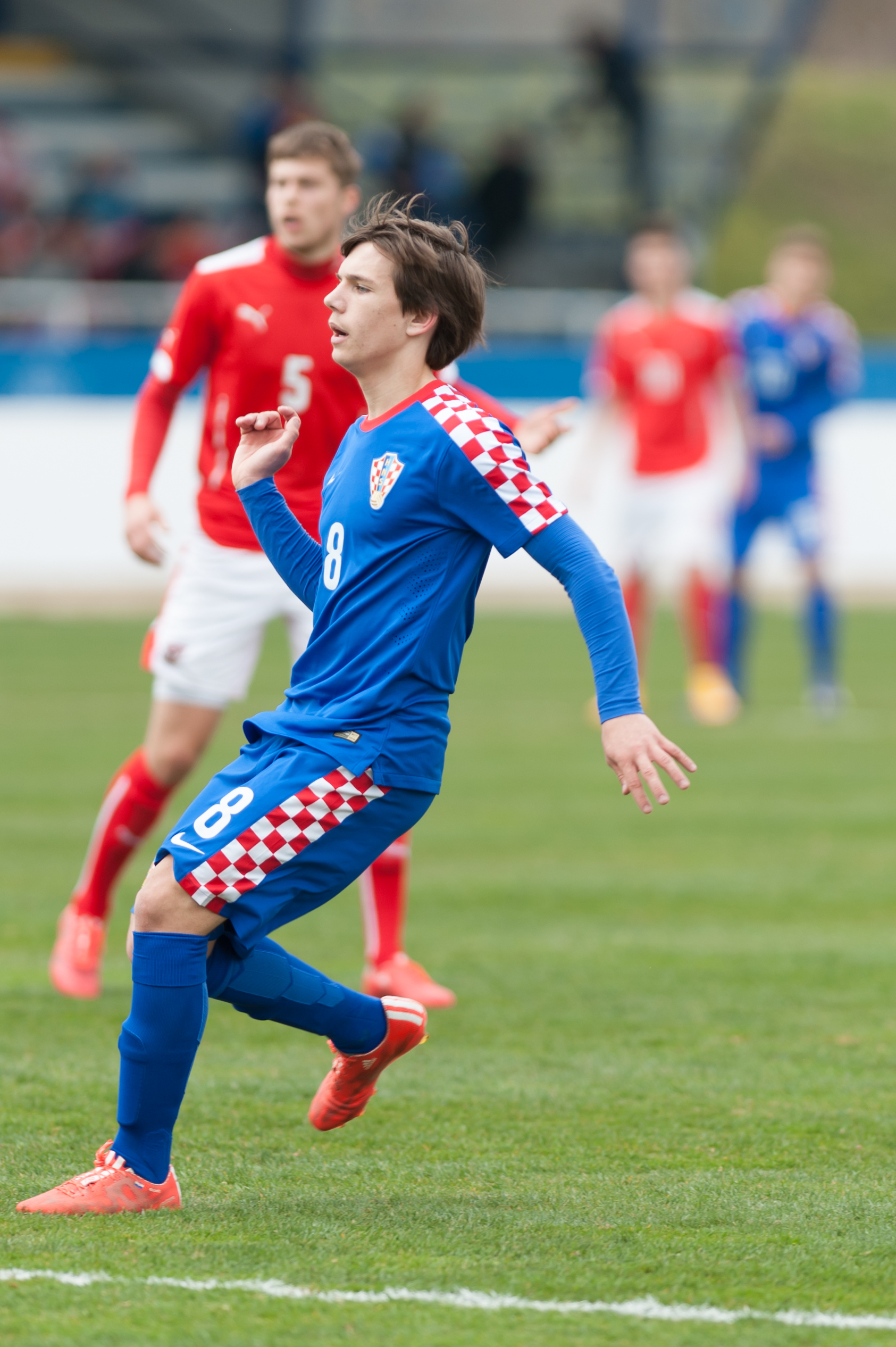 European Under-19 Championships 2015 Elite Round, Austria vs. Croatia, 28/03/2015 Wiener Neustadt, Lower Austria